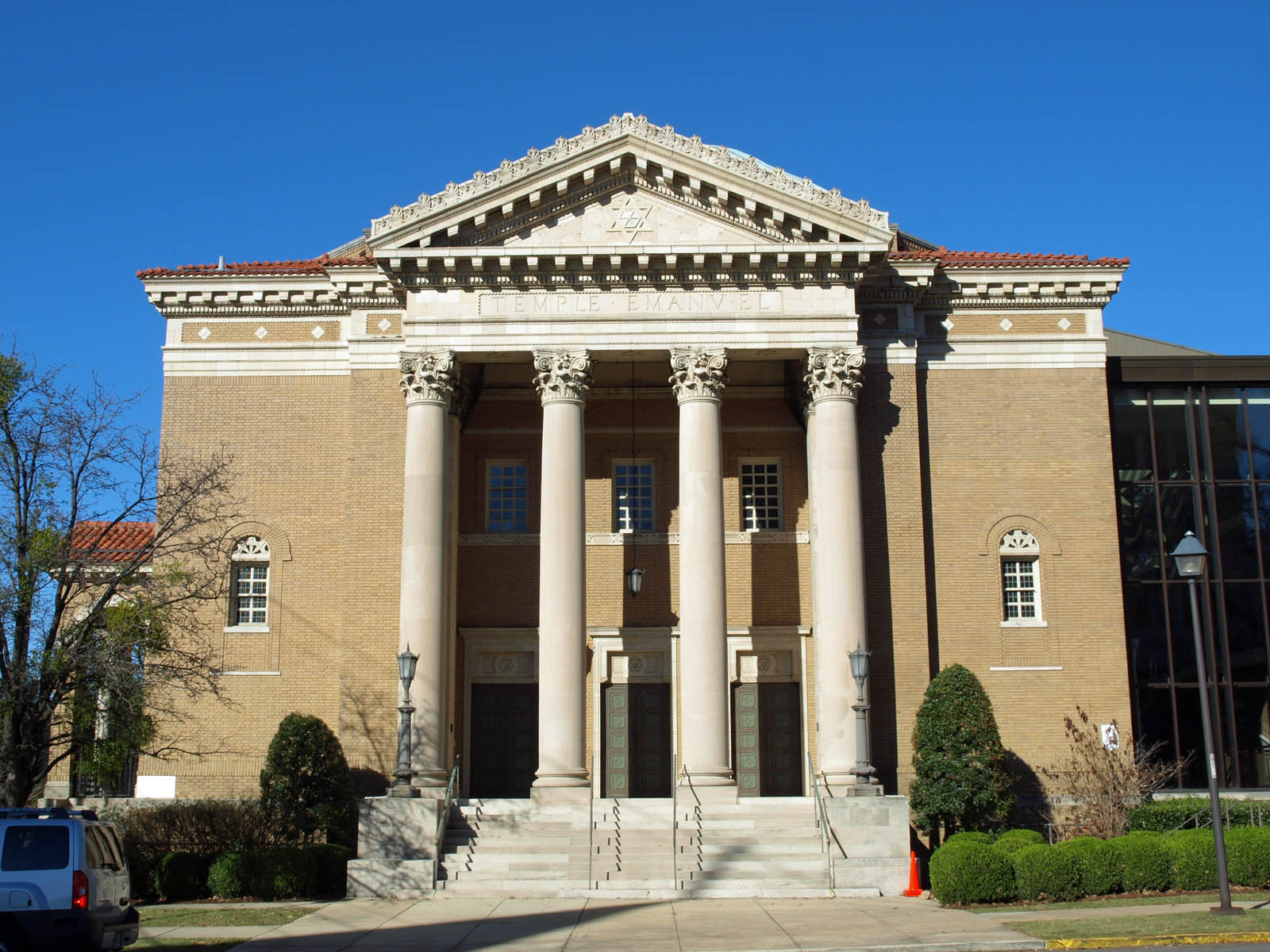 Temple Emanu-El in Birmingham, Alabama, part of the Five Points South Historic District